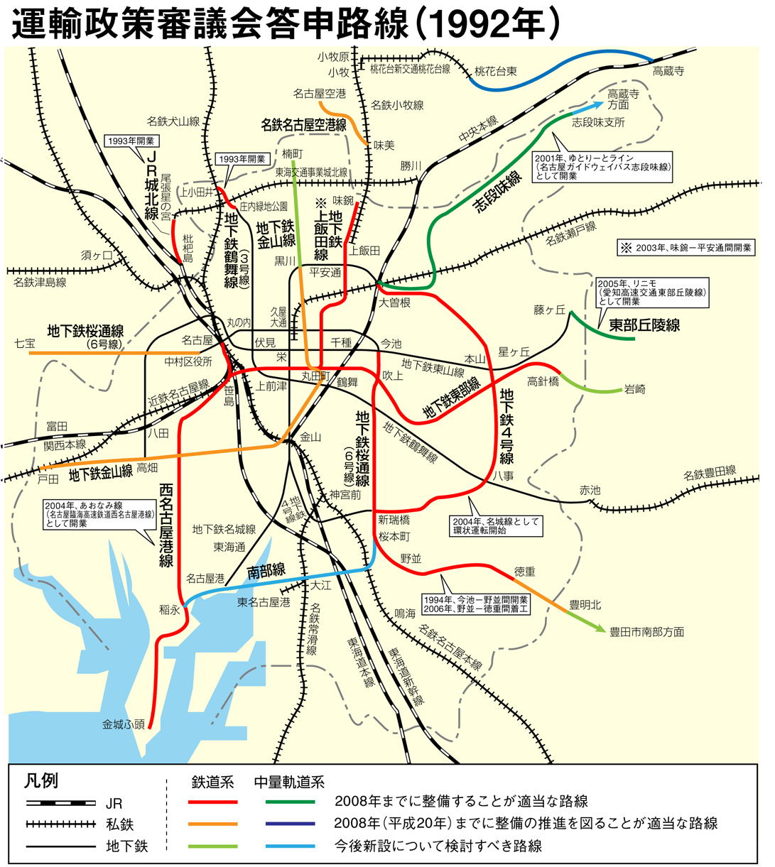 Basic Plan for upgrade of the transportation network in Nagoya Metropolitan Area in 1992